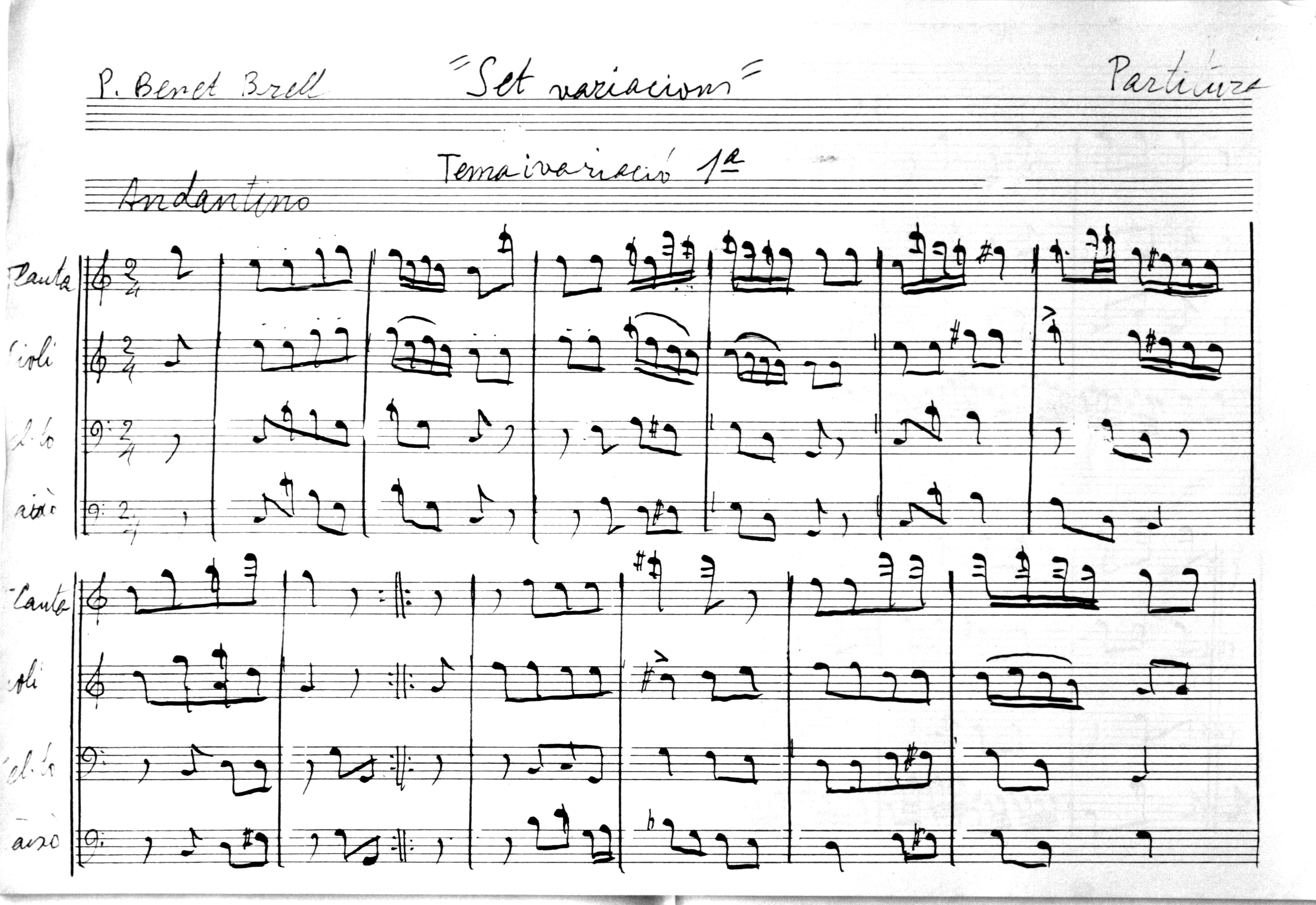 Tema amb variacions de Benet Brell